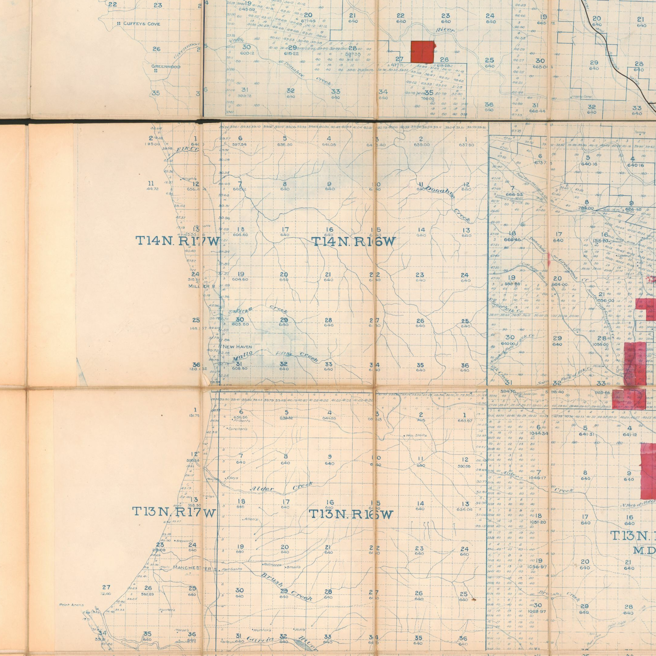 Shows the location of the former town of Miller/Bridgeport in Mendocino County, California, in relation to existing communities such as Greenwood/Elk, Manchester, and Point Arena.